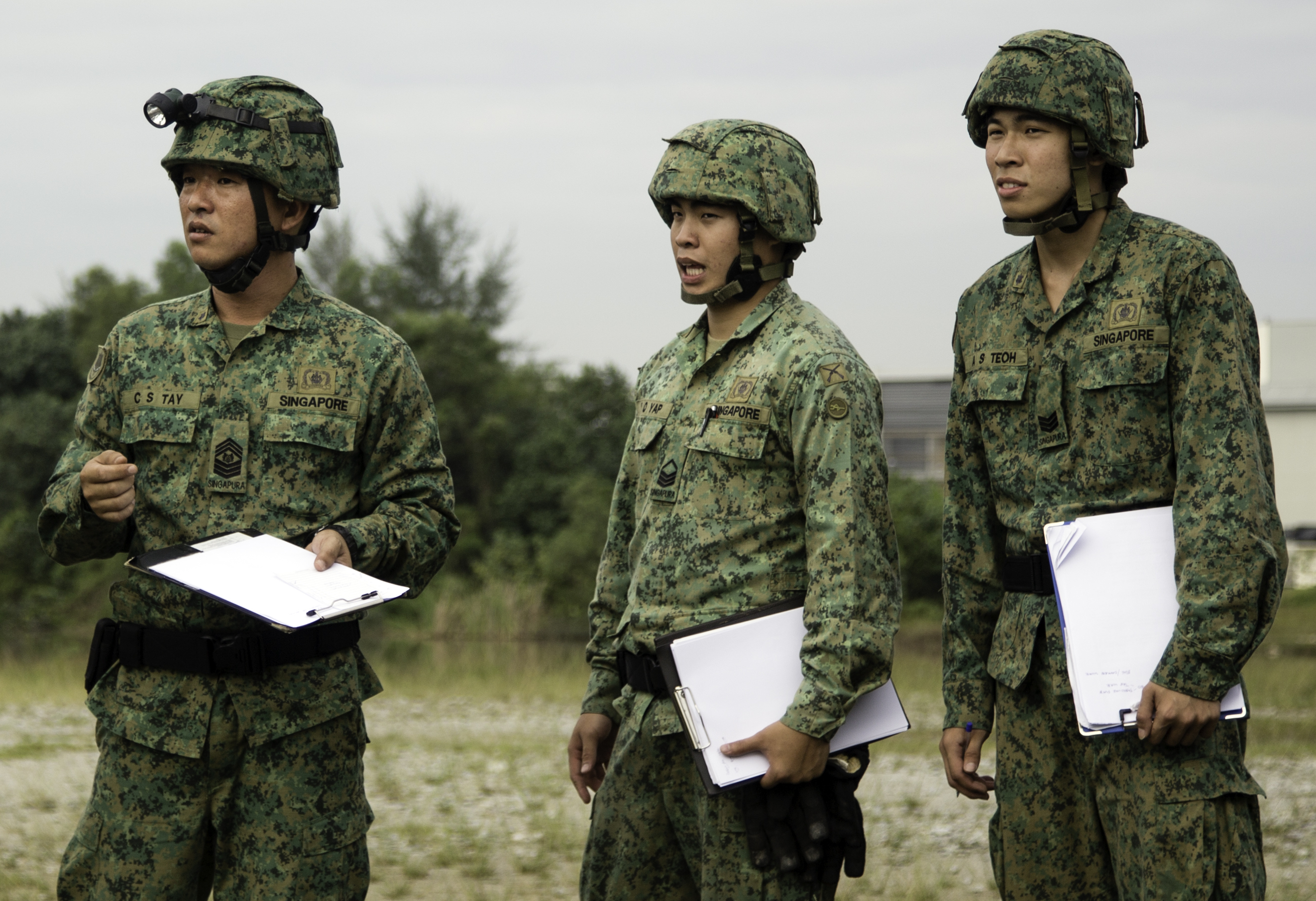 Three soldiers from the 36th Singapore Combat Engineers